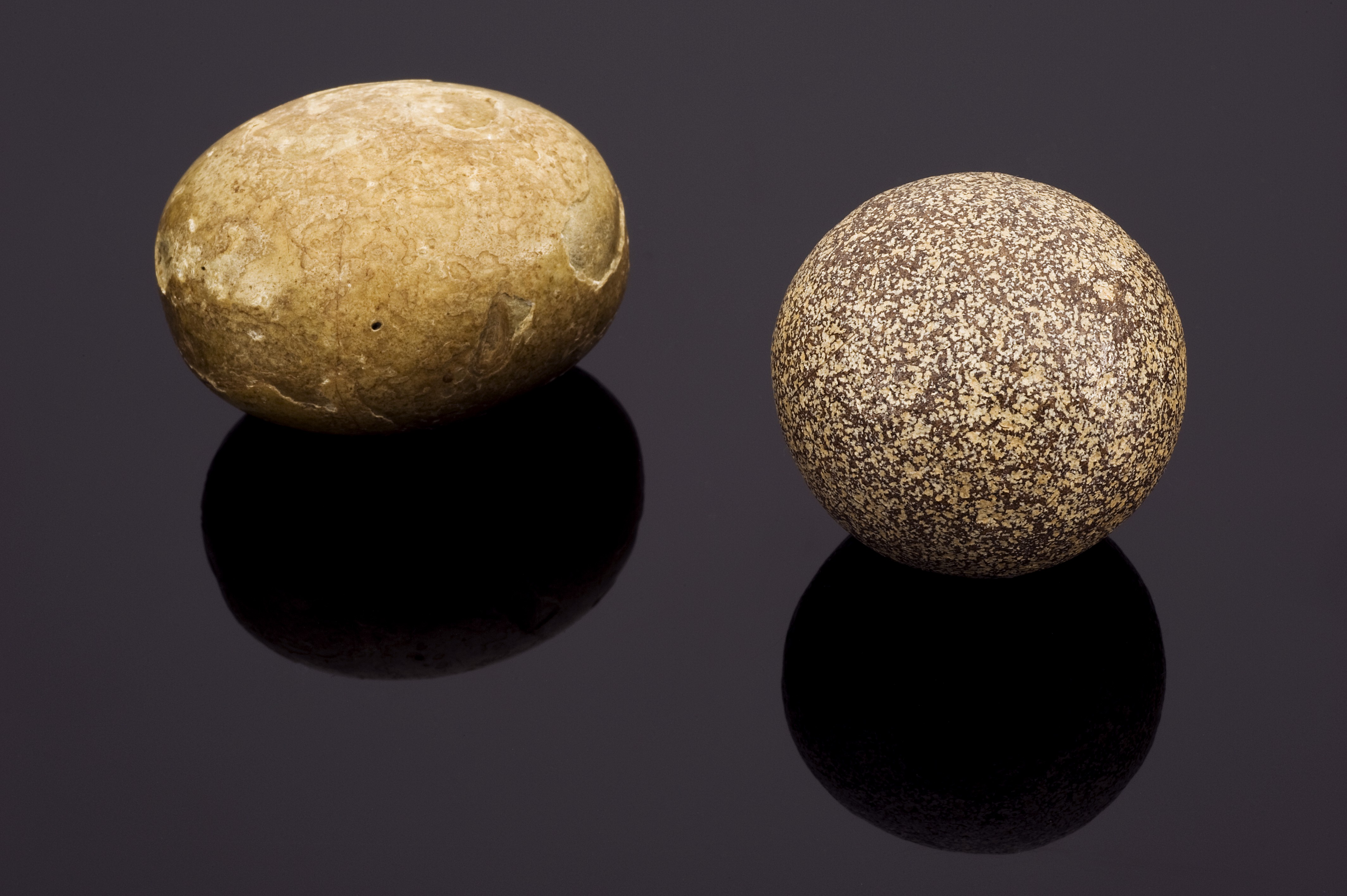 Bezoar stones are found in the stomachs and intestines of animals and humans. They are made from things that cannot be digested in the body, such as hair, and fibres from fruit and vegetables. This forms a hard, solid stone. The stones were placed in drinks to counteract poisons from would-be assassins. (It was believed that bezoar stones could counteract any poison.) The stone on the right is 45 mm in diameter. It is shown here with a bezoar stone from a camel (A635027). maker: Unknown maker Place made: Unknown place Wellcome Images Keywords: bezoar